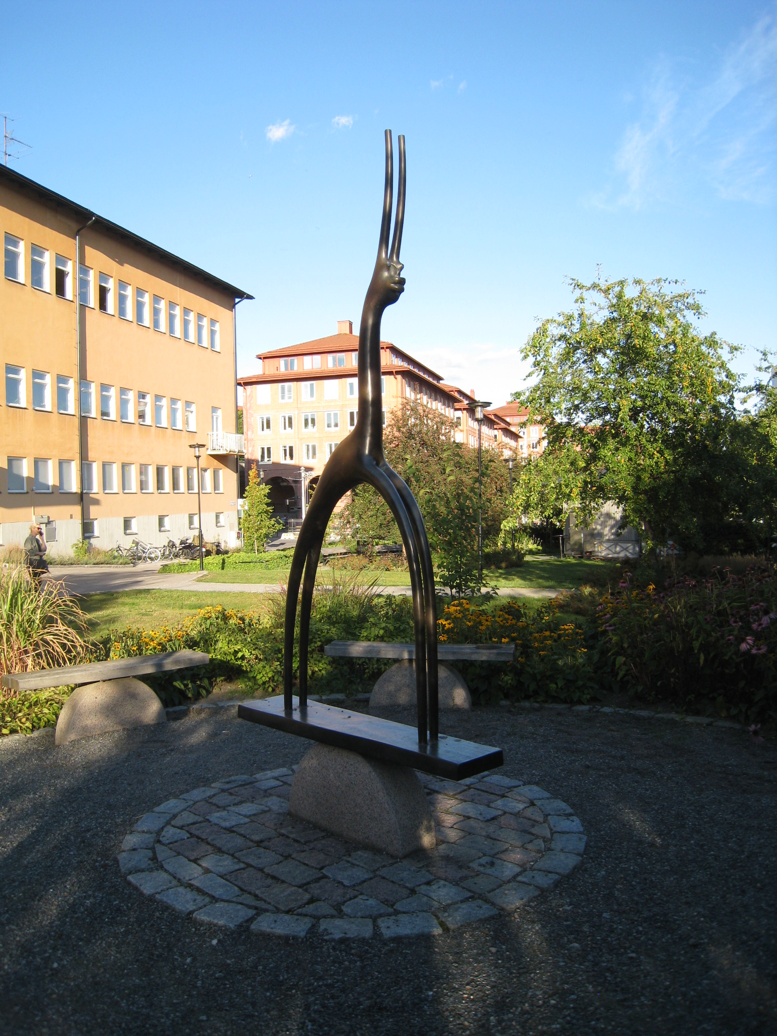 "Equilibrium", sculpture by Ragnhild Alexandersson (born 1947), a graceful hind, in front of Alvik Citizen House, Gustavslundsvägen 168, Alvik, Bromma, Stockholm. The hind was erected in 2003.